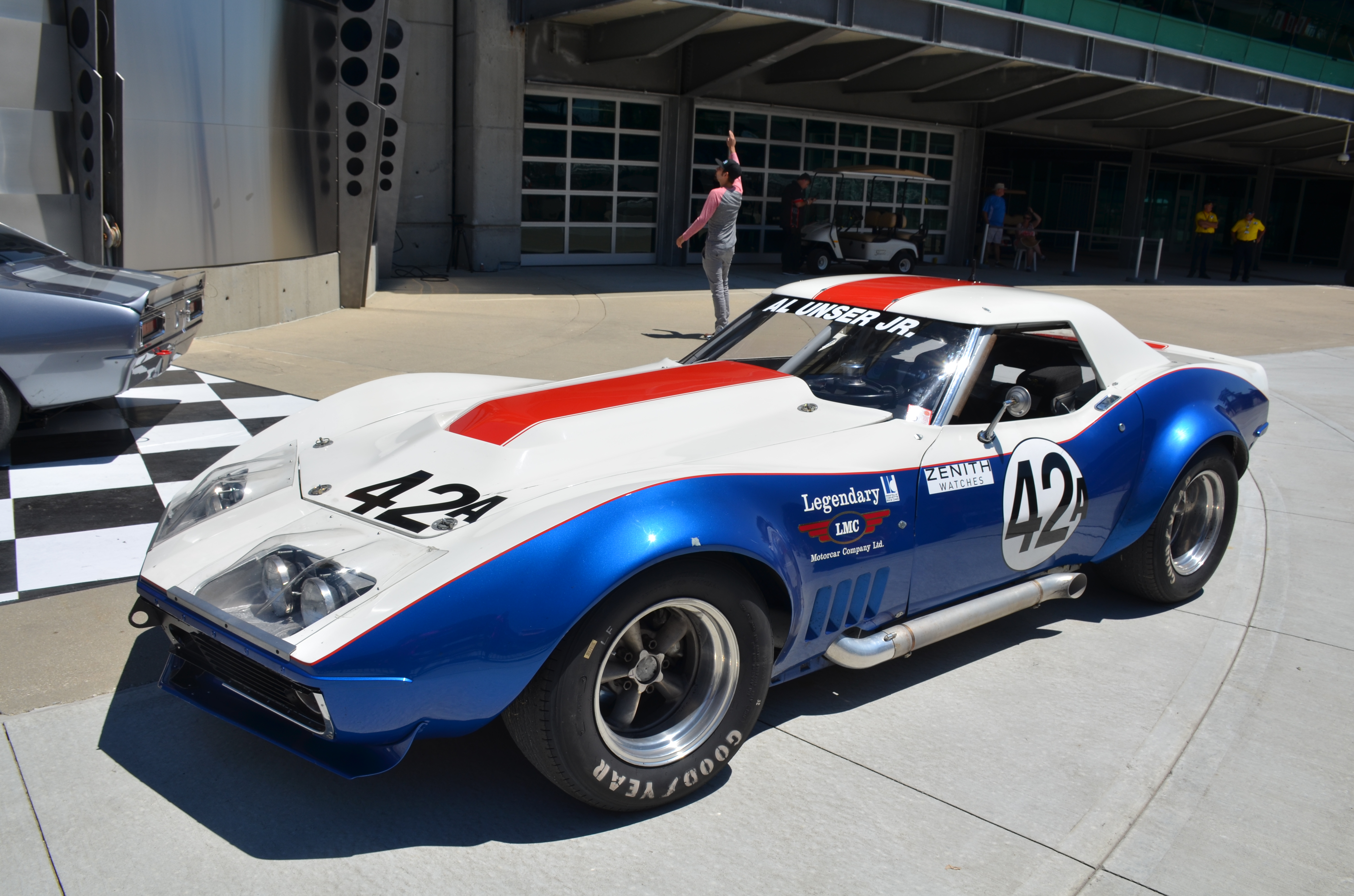 The car of Al Unser Jr. at the 2016 SVRA Brickyard Invitational Indy Legends Charity Pro-Am race (Indianapolis Motor Speedway).